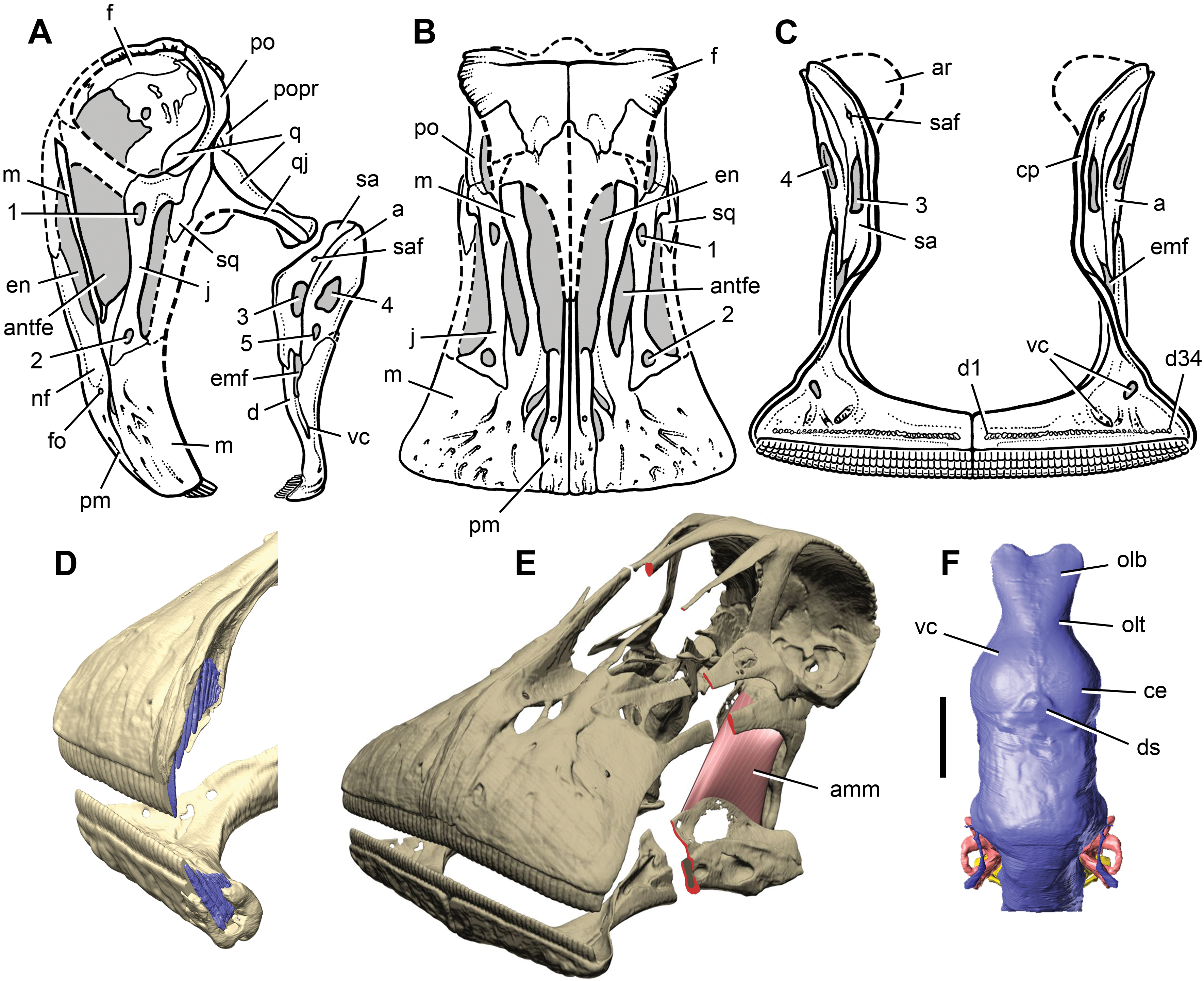 Skull of Nigersaurus taqueti and head posture in sauropodomorphs. (A)-Lateral view of skull (MNN GAD512). (B)-Anterodorsal view of cranium. (C)-Anterior view of lower jaws. (D)-Premaxillary and dentary tooth series (blue) reconstructed from µCT scans. (E)-Skull reconstruction in anterolateral and dorsal view cut at mid length between muzzle and occipital units (cross-section in red) with the adductor mandibulae muscle shown between the quadrate and surangular. (F)-Endocast in dorsal view showing the cerebrum and olfactory bulbs. ( Scale bar equals 2 cm in F. Abbreviations: 1–5, fenestrae 1–5; a, angular; amm, adductor mandibulae muscle; antfe, antorbital fenestra; ar, articular; ce, cerebrum; cp, coronoid process; d, dentary; d1, 34, dentary tooth 1, 34; ds, dural sinus; emf, external mandibular fenestra; en, external nares; f, frontal; fo, foramen; j, jugal; m, maxilla; nf, narial fossa; olb, olfactory bulb; olt, olfactory tract; pm, premaxilla; po, postorbital; popr, paroccipital process; q, quadrate; qj, quadratojugal; sa, surangular, saf, surangular foramen; sq, squamosal; vc, vascular canal.